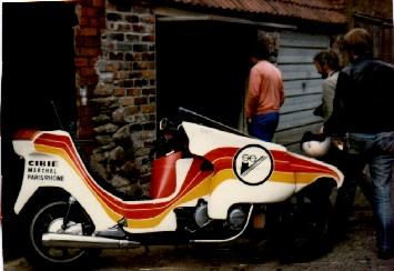 Feet Forwards motorcycle built by Malcolm Newell in John Bruce's yard